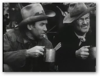 Cropped screenshot of the film Winchester '73